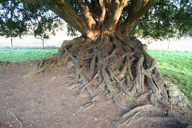 Ancient Yew. Tangled mass of roots to the ancient Yew 726972 at Waverley Abbey